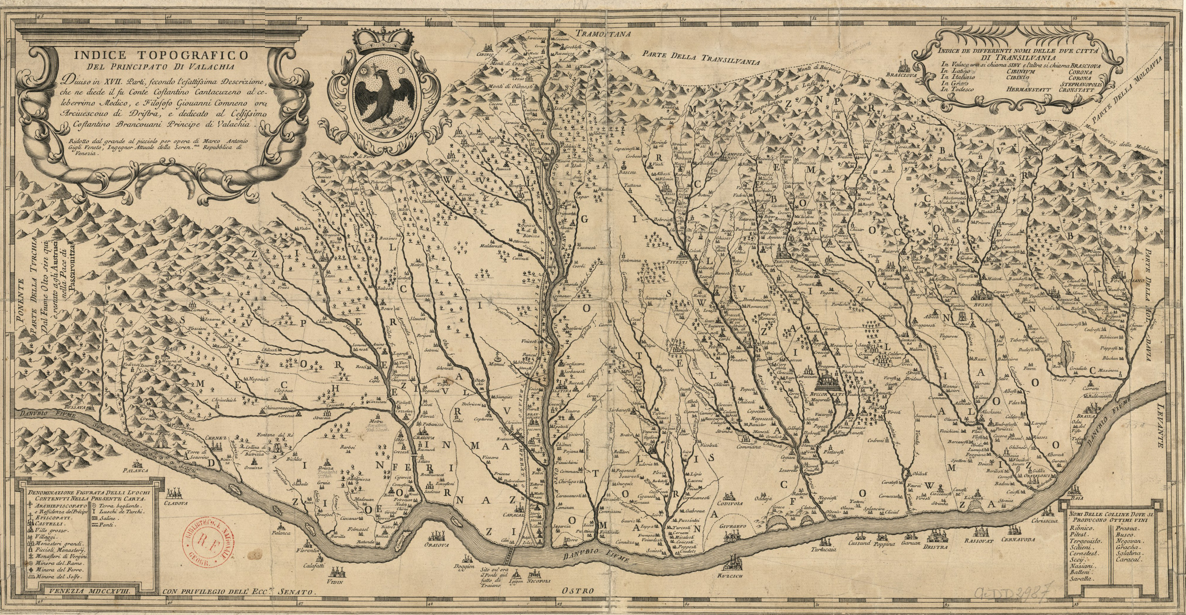 17th century map of Wallachia (nowadays, Southern Romania), by stolnic Constantin Cantacuzino